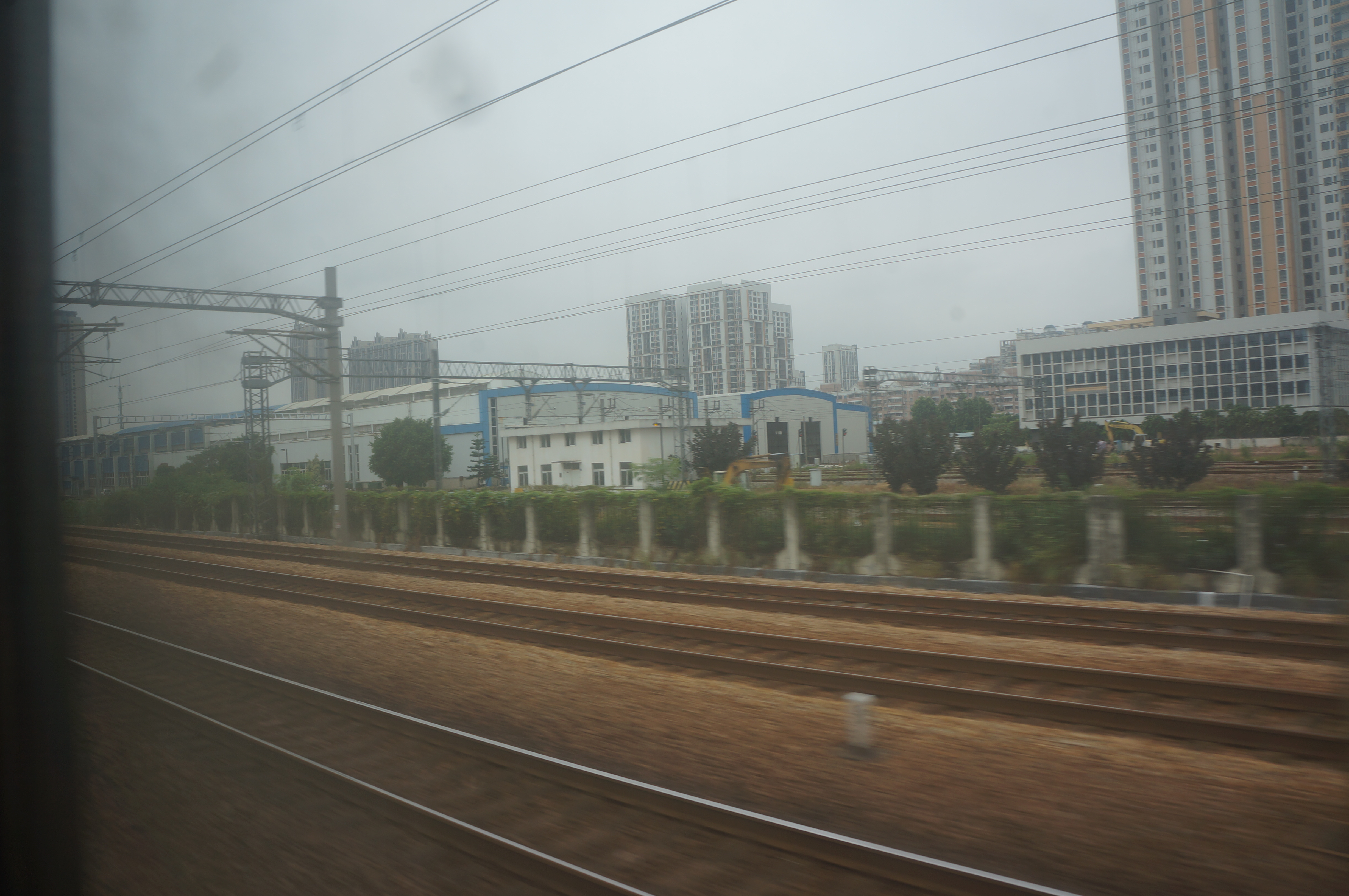 201609 Guangzhoudong EMU Depot